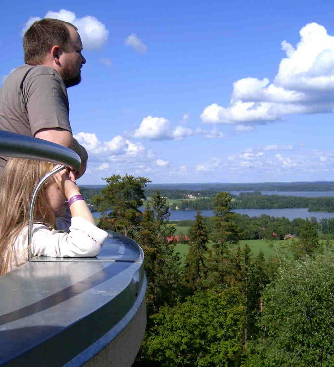 A lake view from Kangasala, Finland.